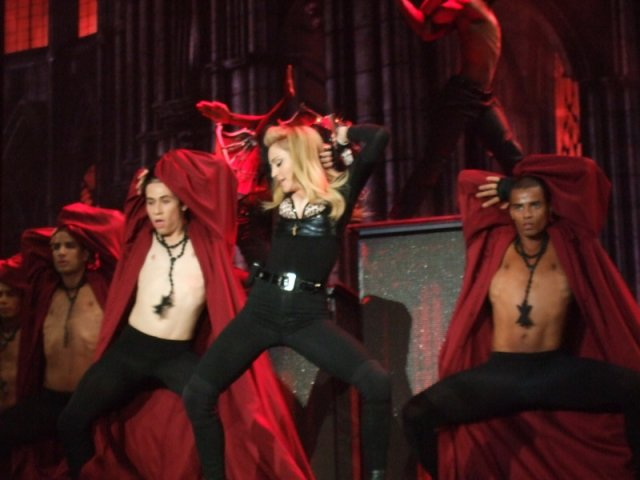 Madonna 2012 concert in Barcelona